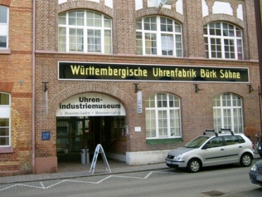 Outside view of the Uhrenindustriemuseum at Buerkstrasse 39 in Schweningen